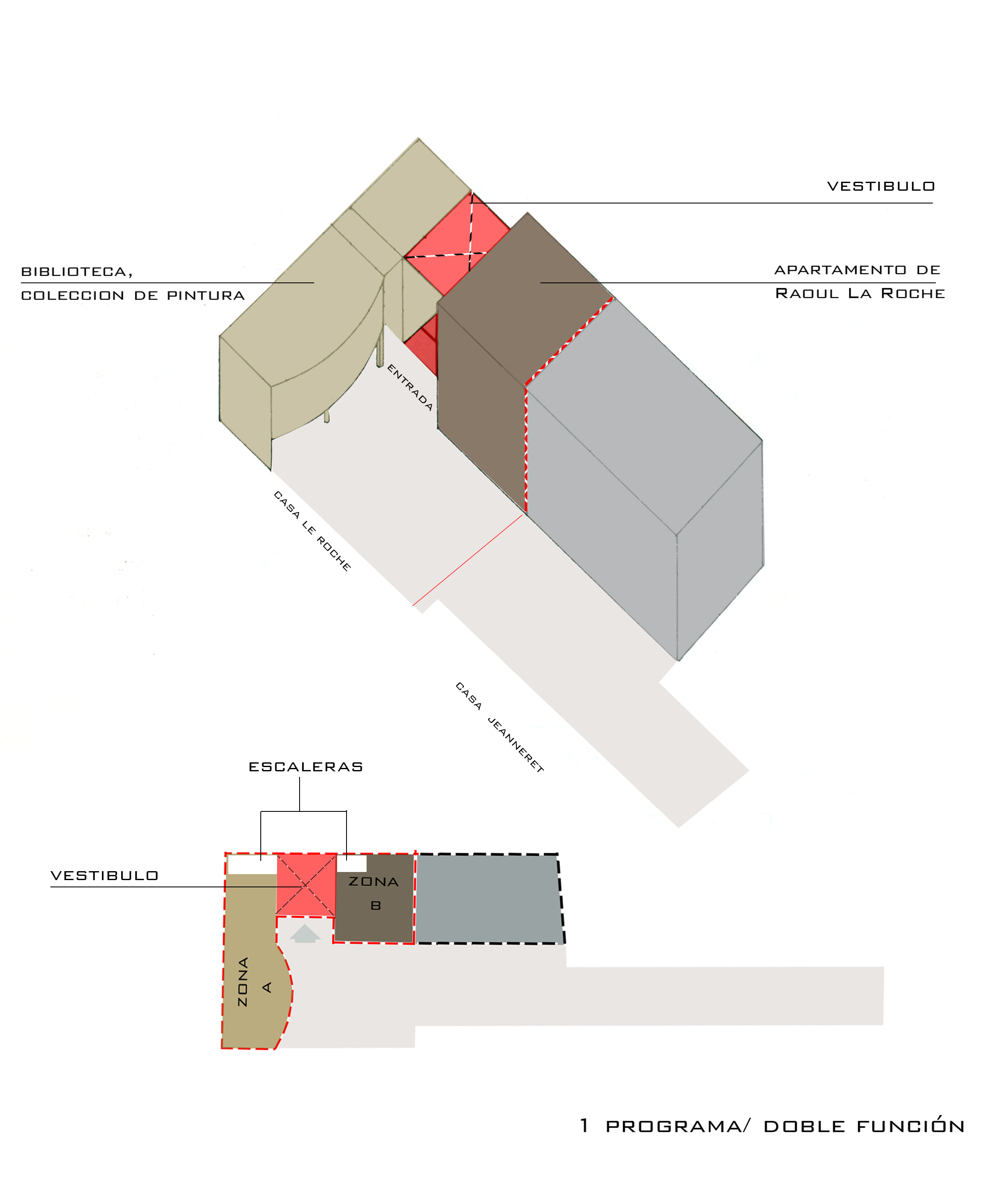 Planta esquemática separando las 2 casa ,1 programa doble función